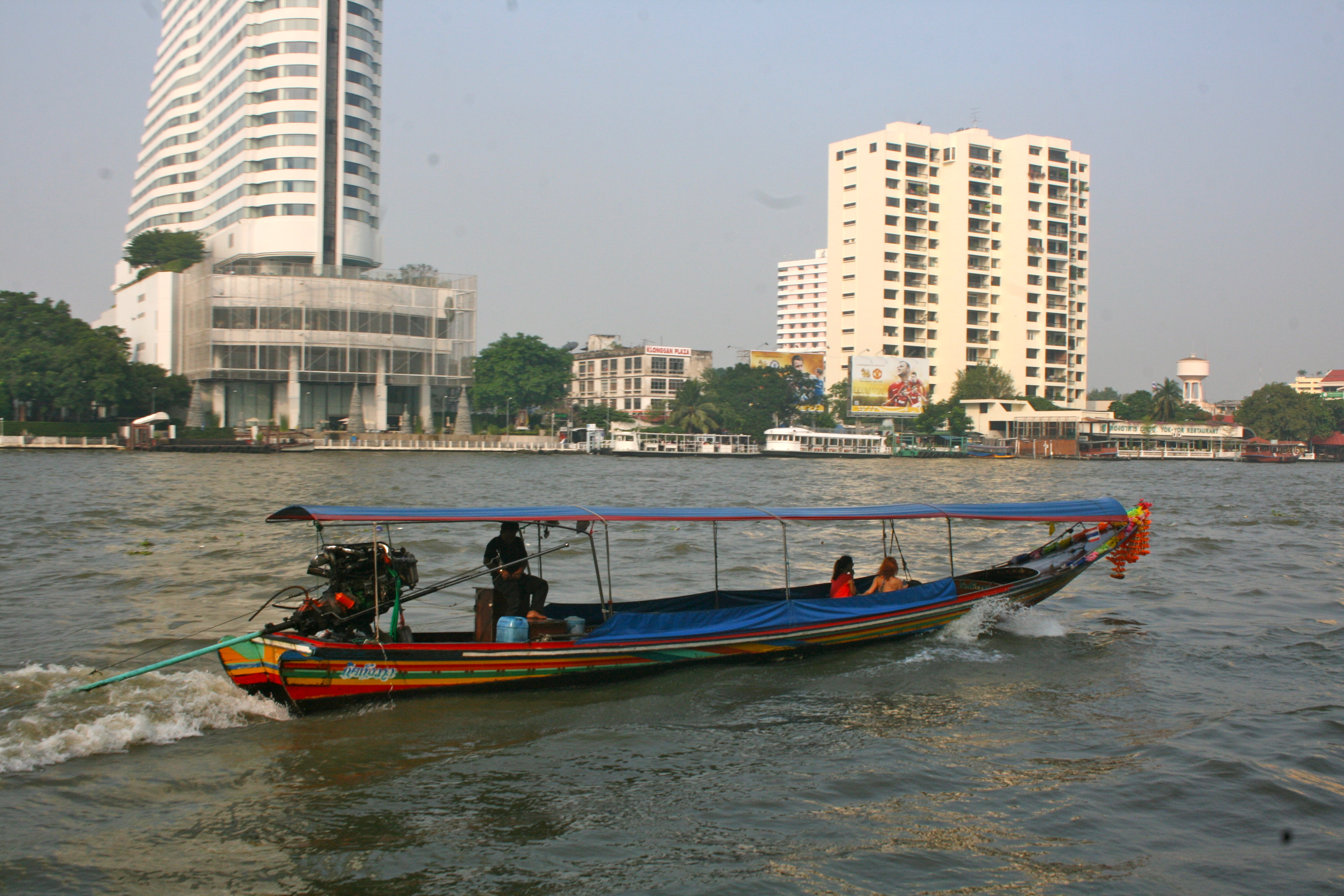 A longtail boat in Bangkok, Thailand. Those longtail boats are like private taxis and can be hired cheaply, they are pretty noisy thought with a great big diesel engine fastened on the back, they are fast though.